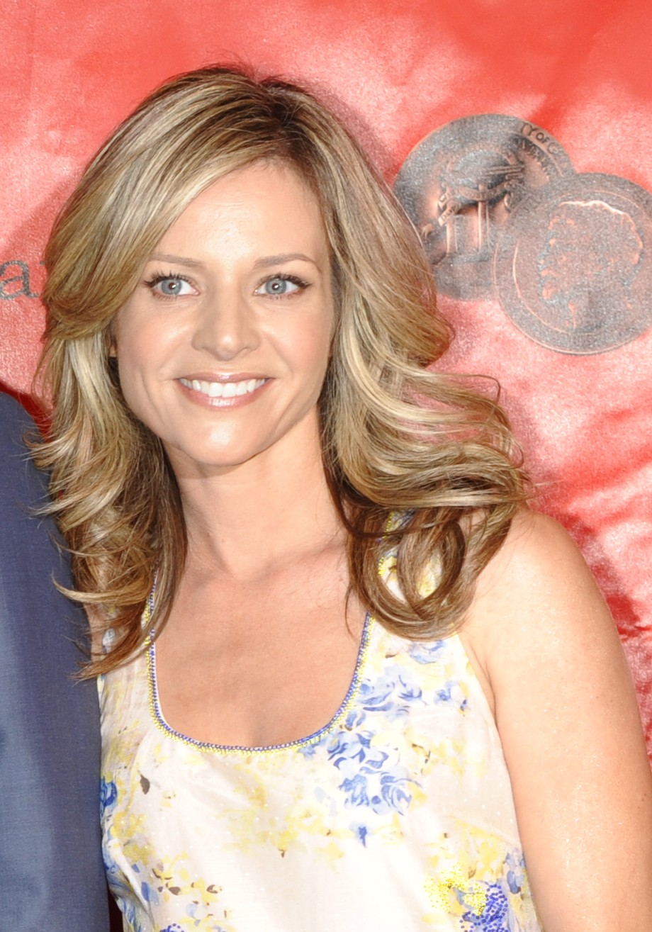 Cast of Glee at the 2010 Peabody Award